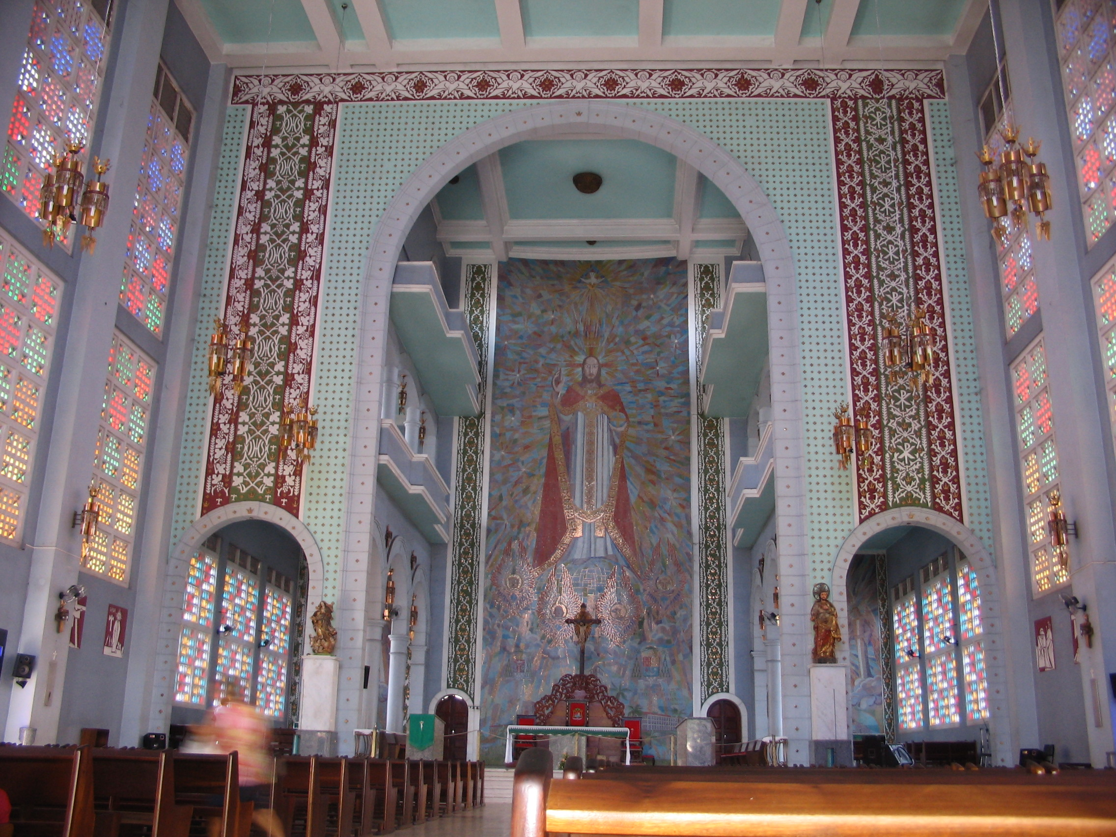 Metropolitan Cathedral (indoors), in Cuiabá, Mato Grosso, Brazil